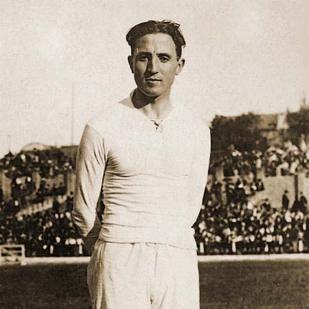 Santiago Bernabéu during his tenure as player in Real Madrid C.F.